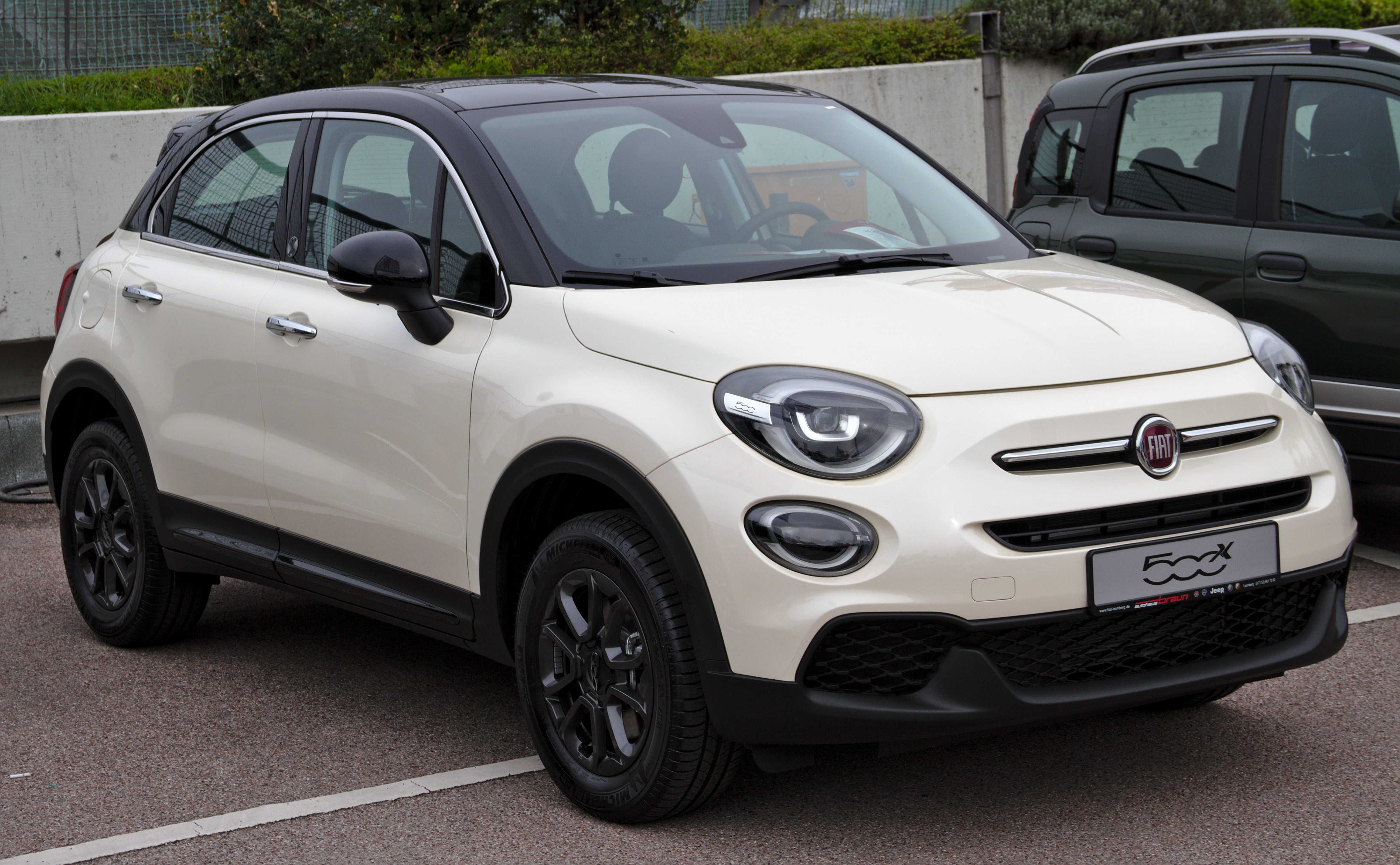 Fiat_500X at Leonberger Autoschau 2019